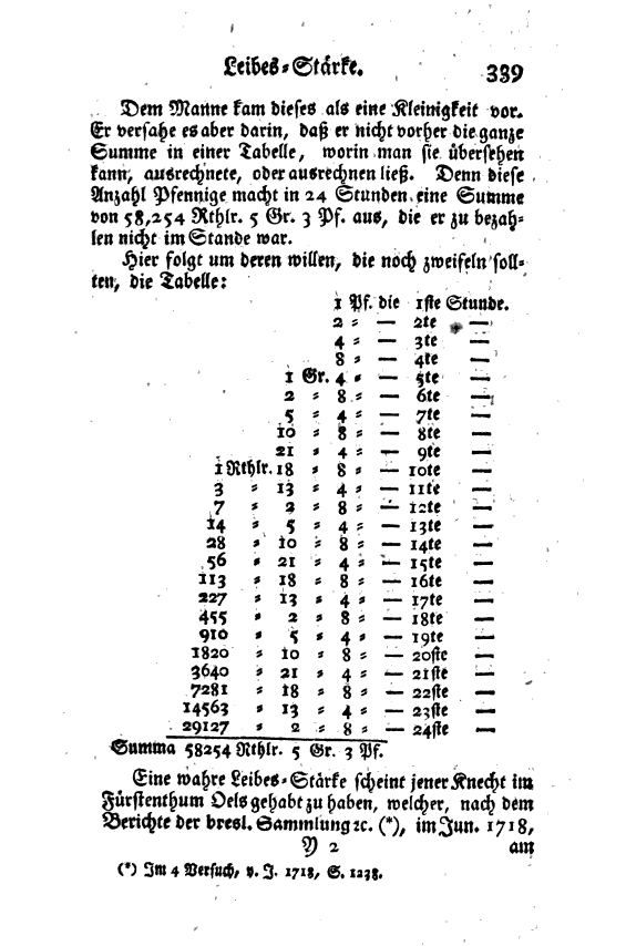 Cost report of a horse-dealing